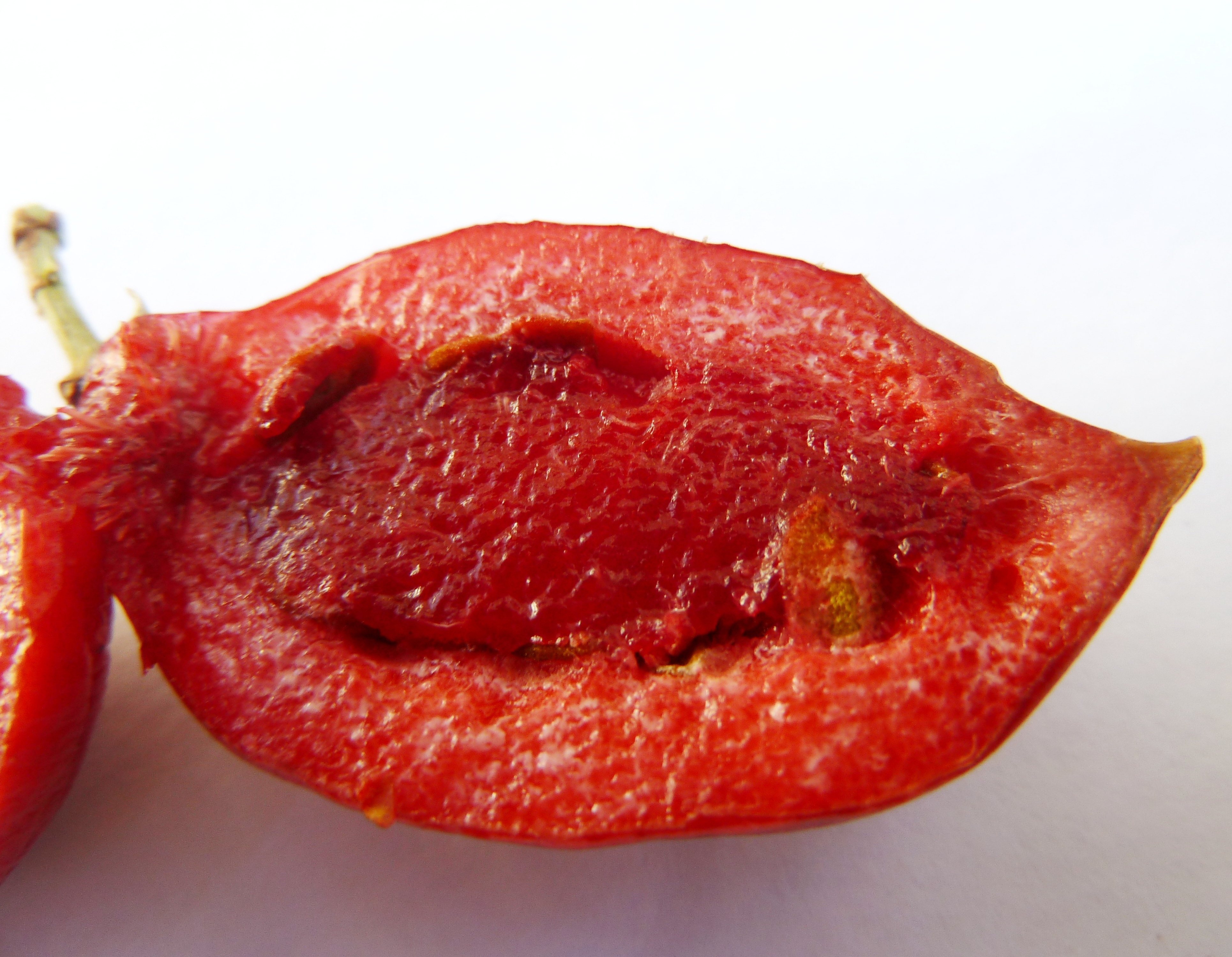 Cross section of a ripe fruit of a Big num-num at the TUT campus, Pretoria